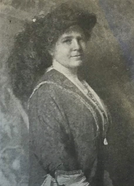 Snip of portrait of Elise Bennett (Mrs. Thomas Jefferson) Smith of Richmond while serving as the chair of the Political Science Department for the Kentucky Federation of Women's Clubs